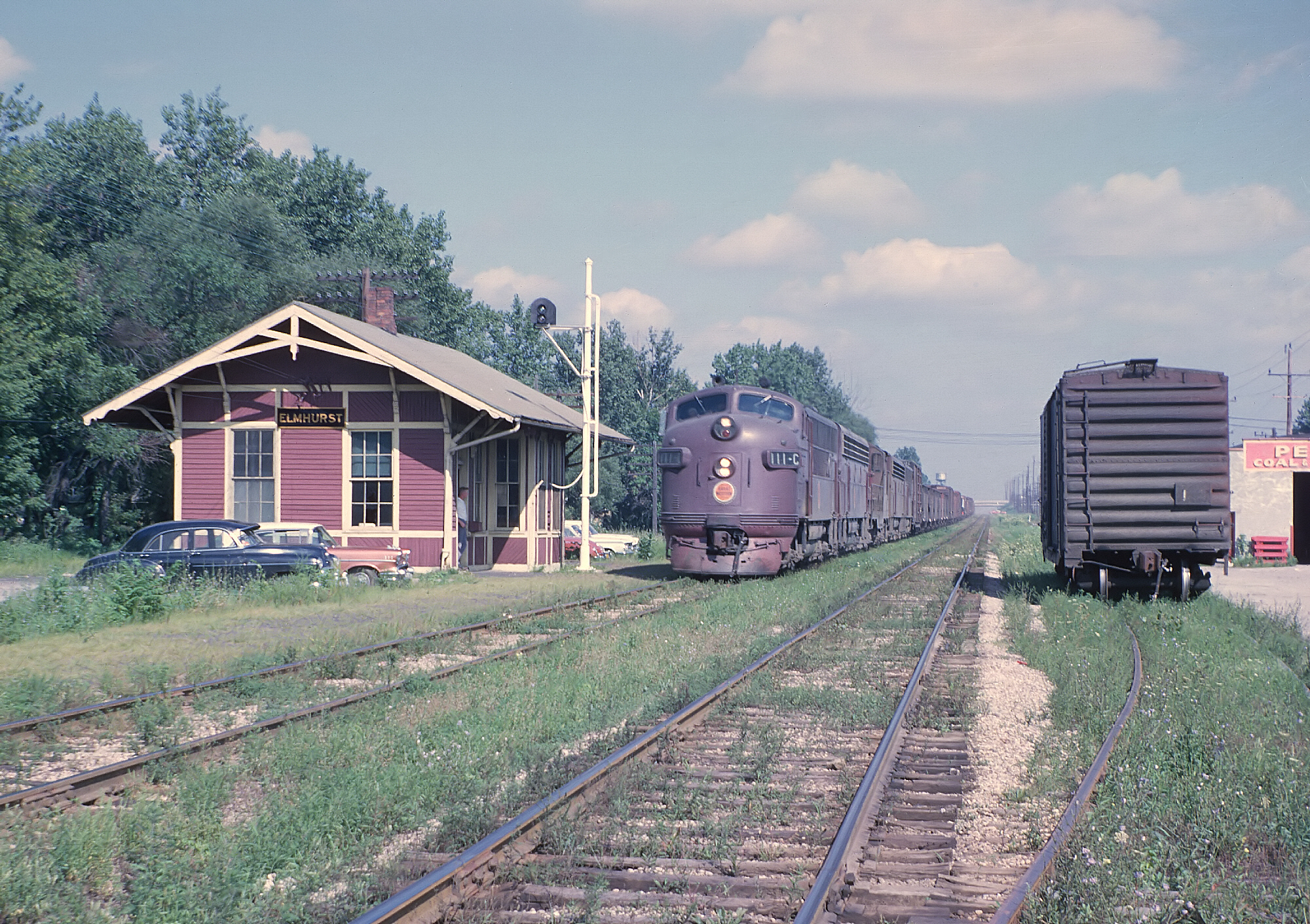 CGW No. 111C, an 1948 EMD F3, leads a westbound freight train through Elmhurst, Illinois.